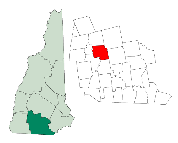 Map of a municipality in Hillsborough County, New Hampshire